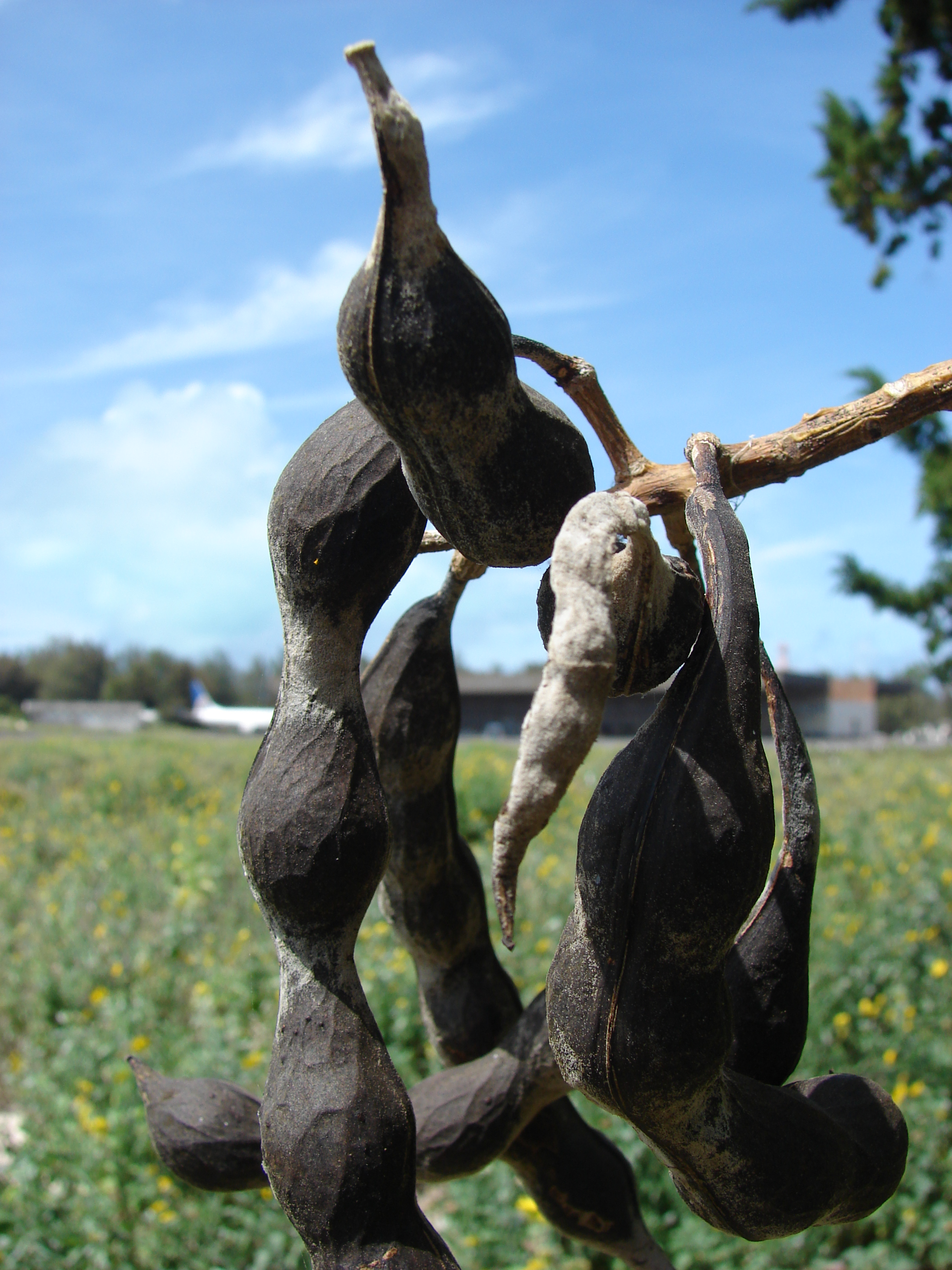 Erythrina variegata (seedpods). Location: Midway Atoll, Road to Marine barracks Sand Island